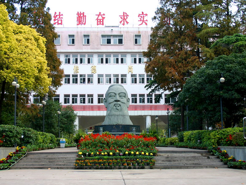 No.6 Middle School, Wuhan, with a large bust of Confucius in front.